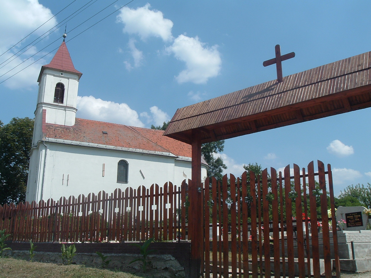 Rapovce (Rapp), Slovakia